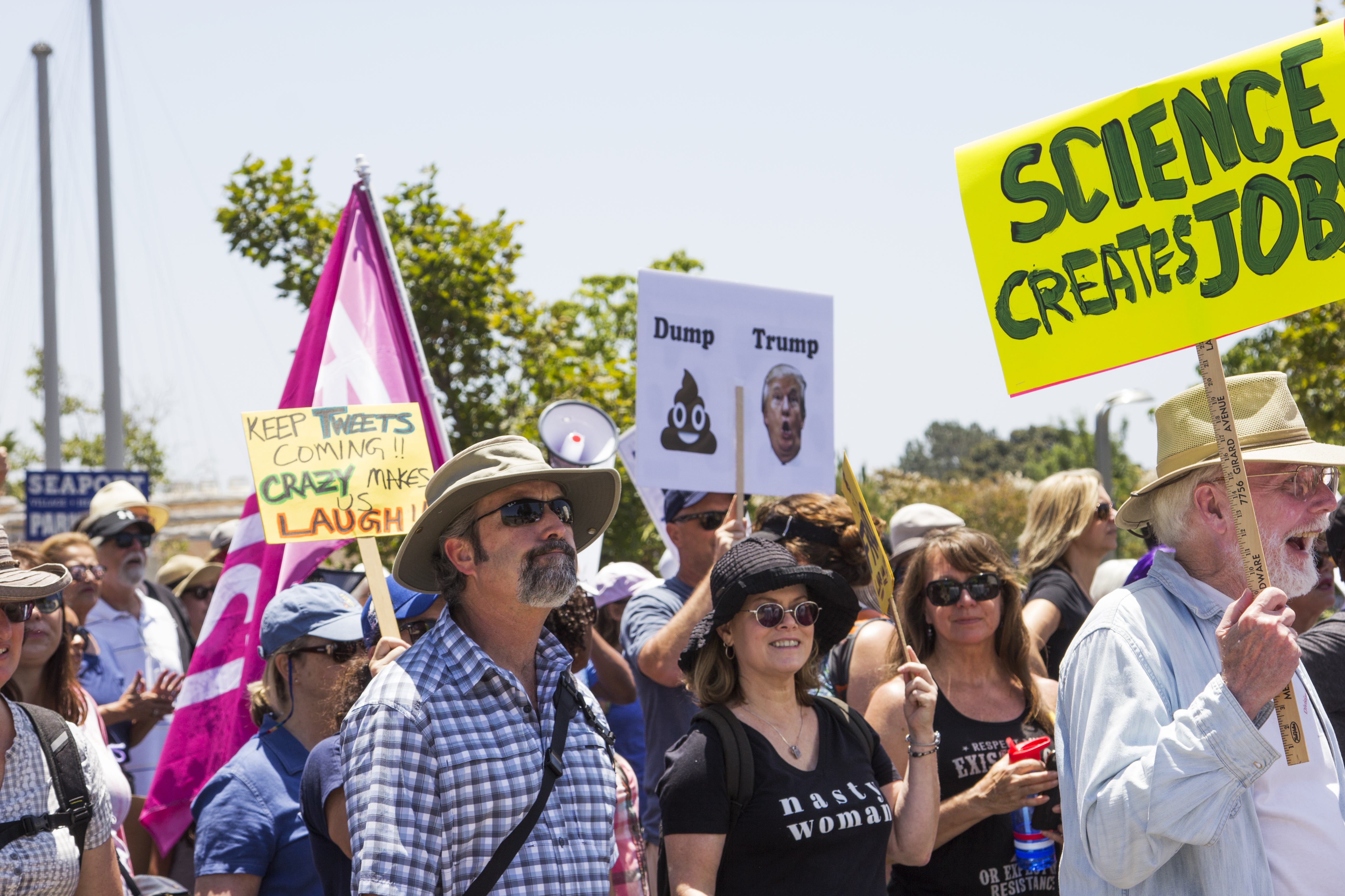 SD_Impeachment_March_IMG_0753_Edit